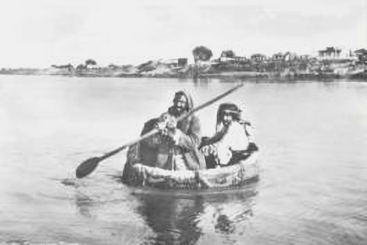 A qufa, a small Iraqi boat, on the Euphrates in Iraq